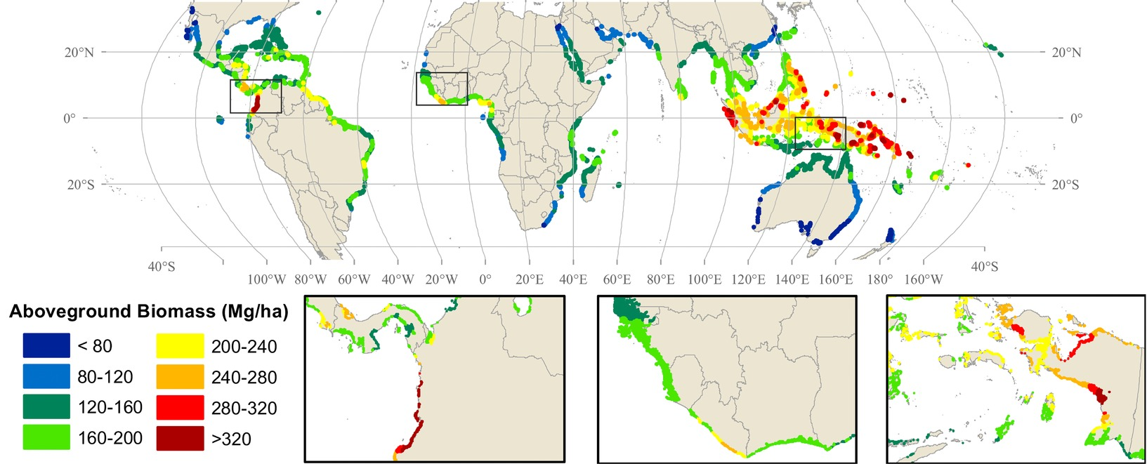 Carbon stored in mangroves is shown in milligrams per hectare and is the results of a model